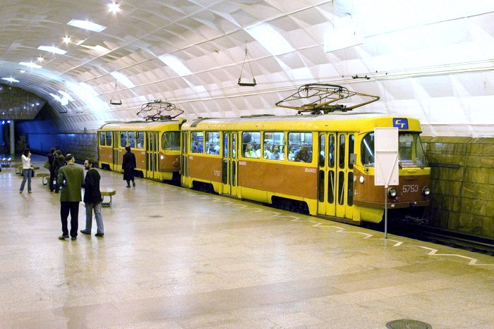 "Lenin Square" station of metrotram line in Volgograd, Russia